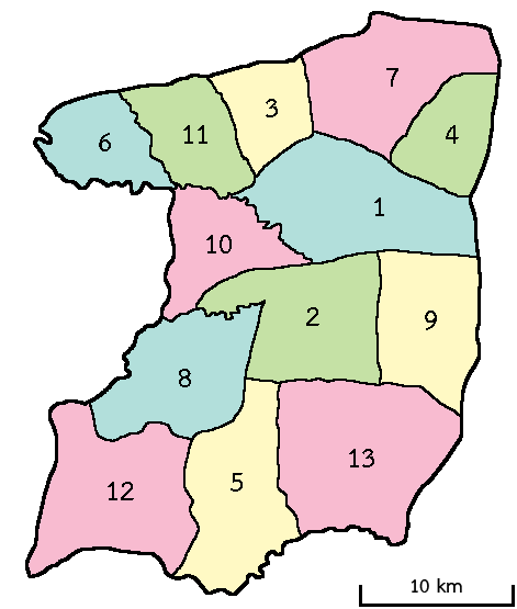 Subdistricts of Kaset Wisai